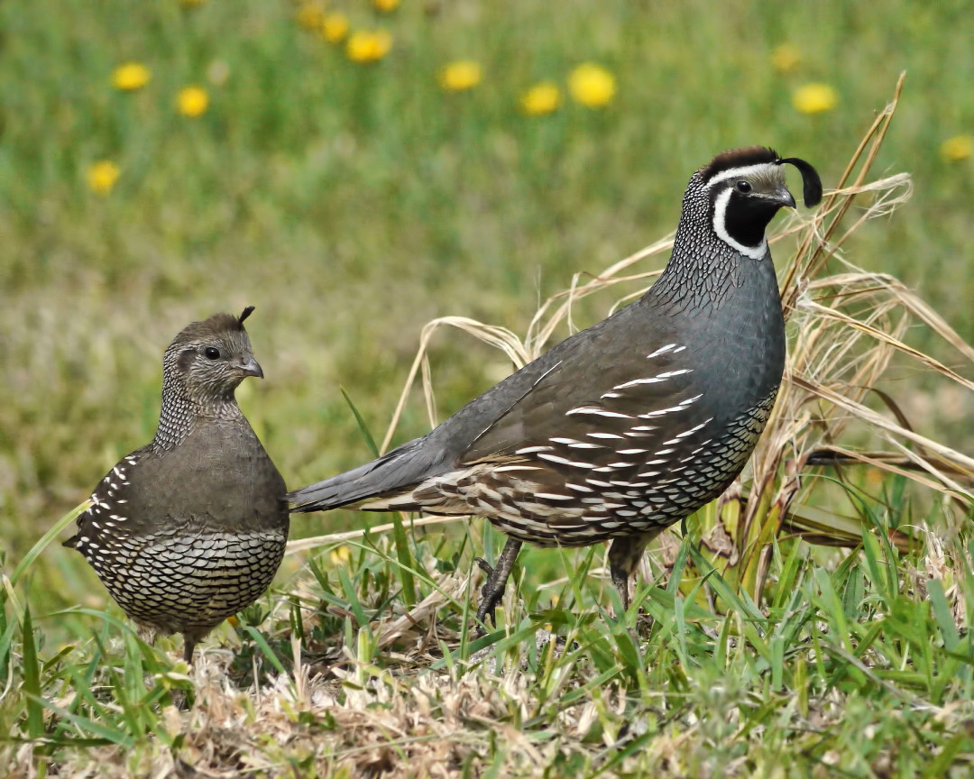 A pair of California Quails in Waikawa, Marlborough, New Zealand.